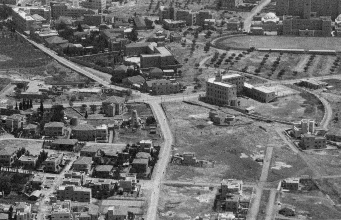 An aerial view of Terra Sancta College and Paris Square (Officially France Square) in Jerusalem, in the 1940s. The "Square " is the junction of Gaza Road and King George V Road. The football pitch of YMCA is seen on the top right